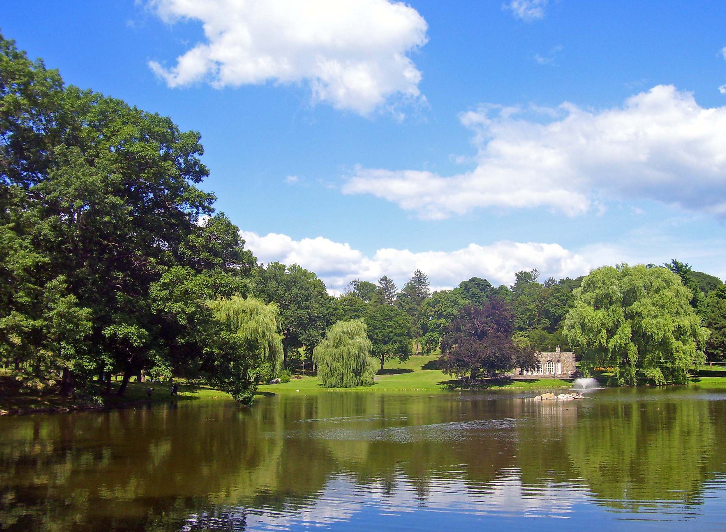 "Polly" at Downing Park, in Newburgh, NY, USA. Photographed from southwest corner of park, near intersection of Robinson Ave. (US 9W-NY 32) and Third St.